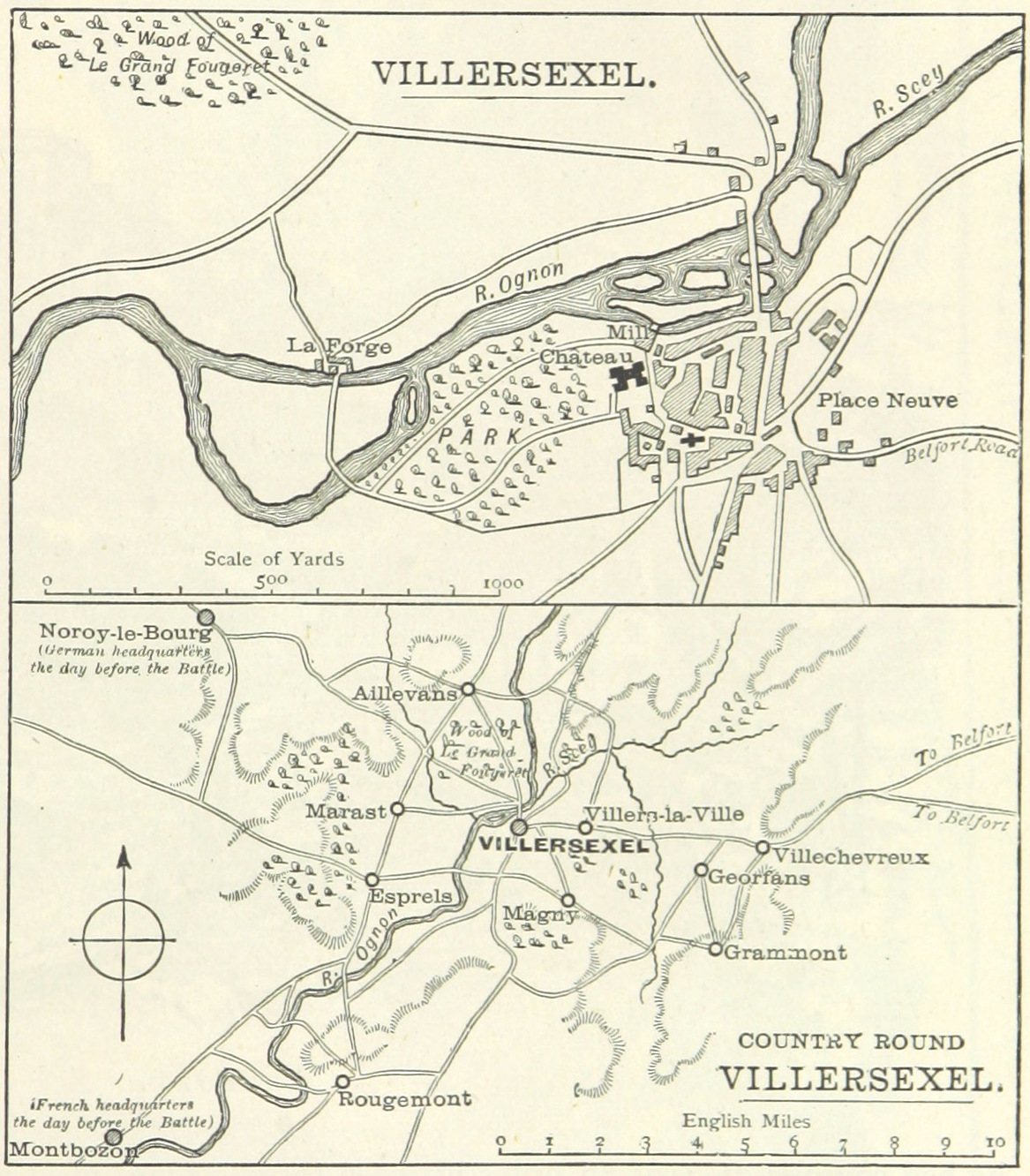 A map of the area near Villersexel, France, at around the time of the Battle of Villersexel.